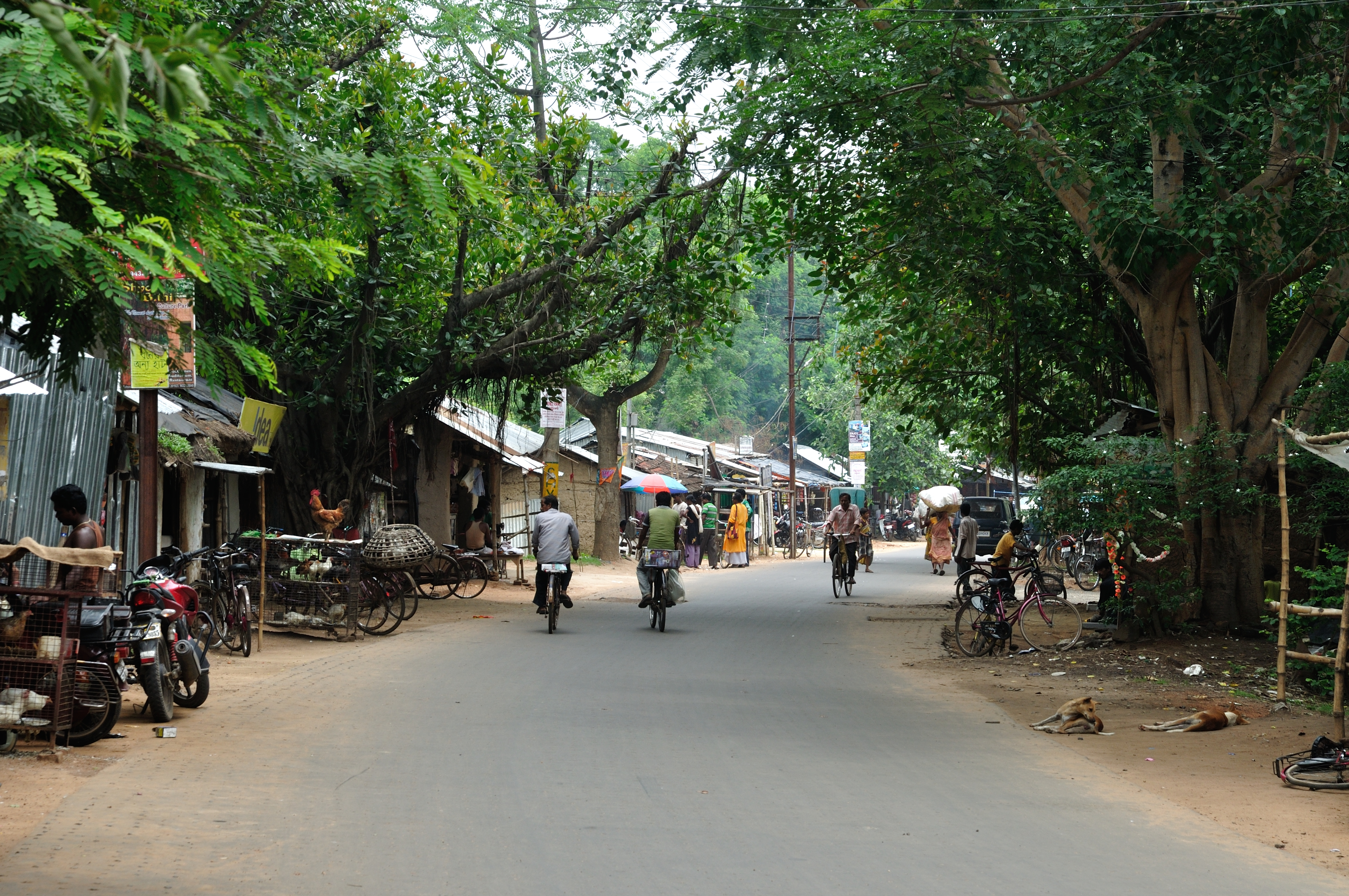 Photographed near to Santiniketan, Birbhum.